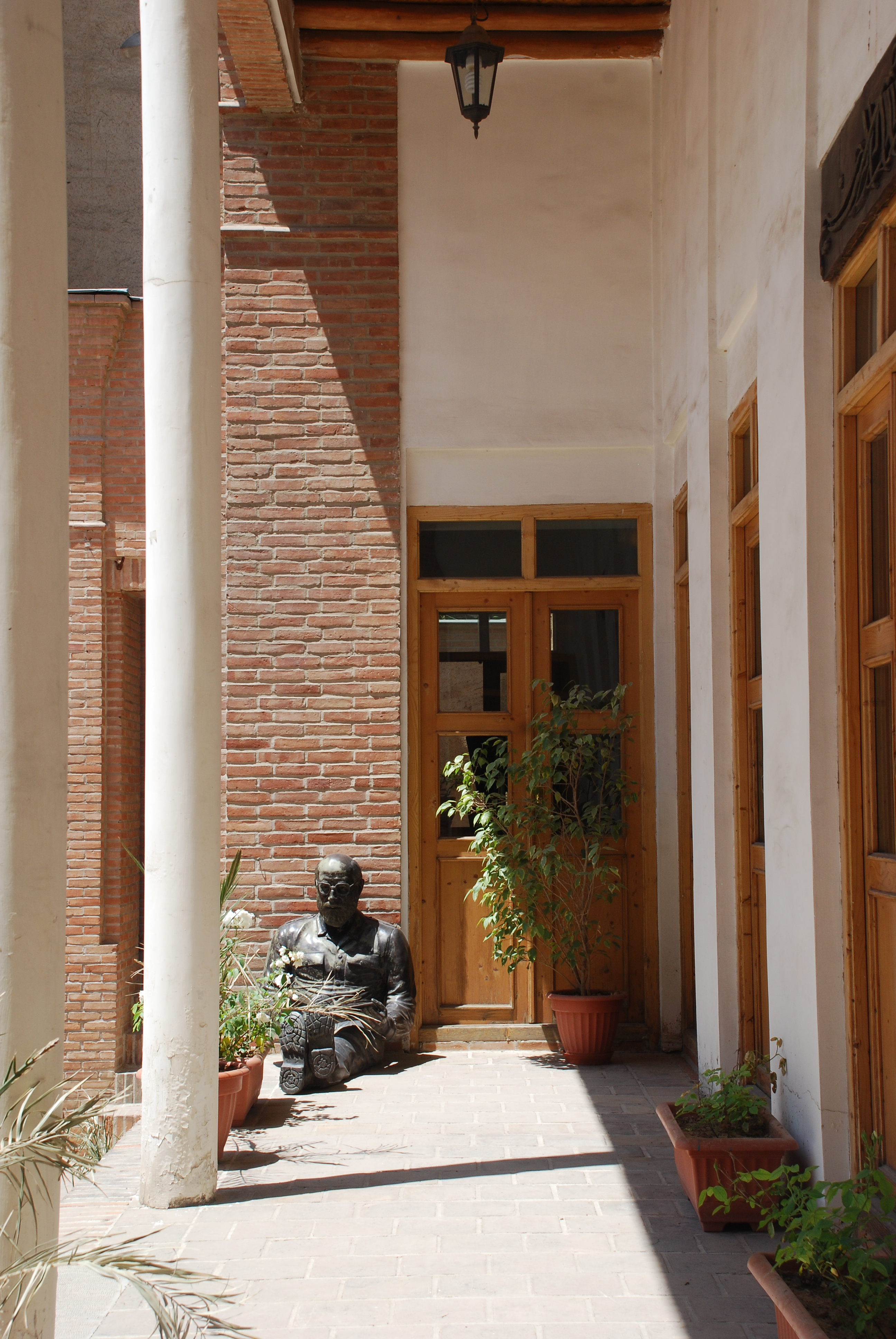 Chamran Museum